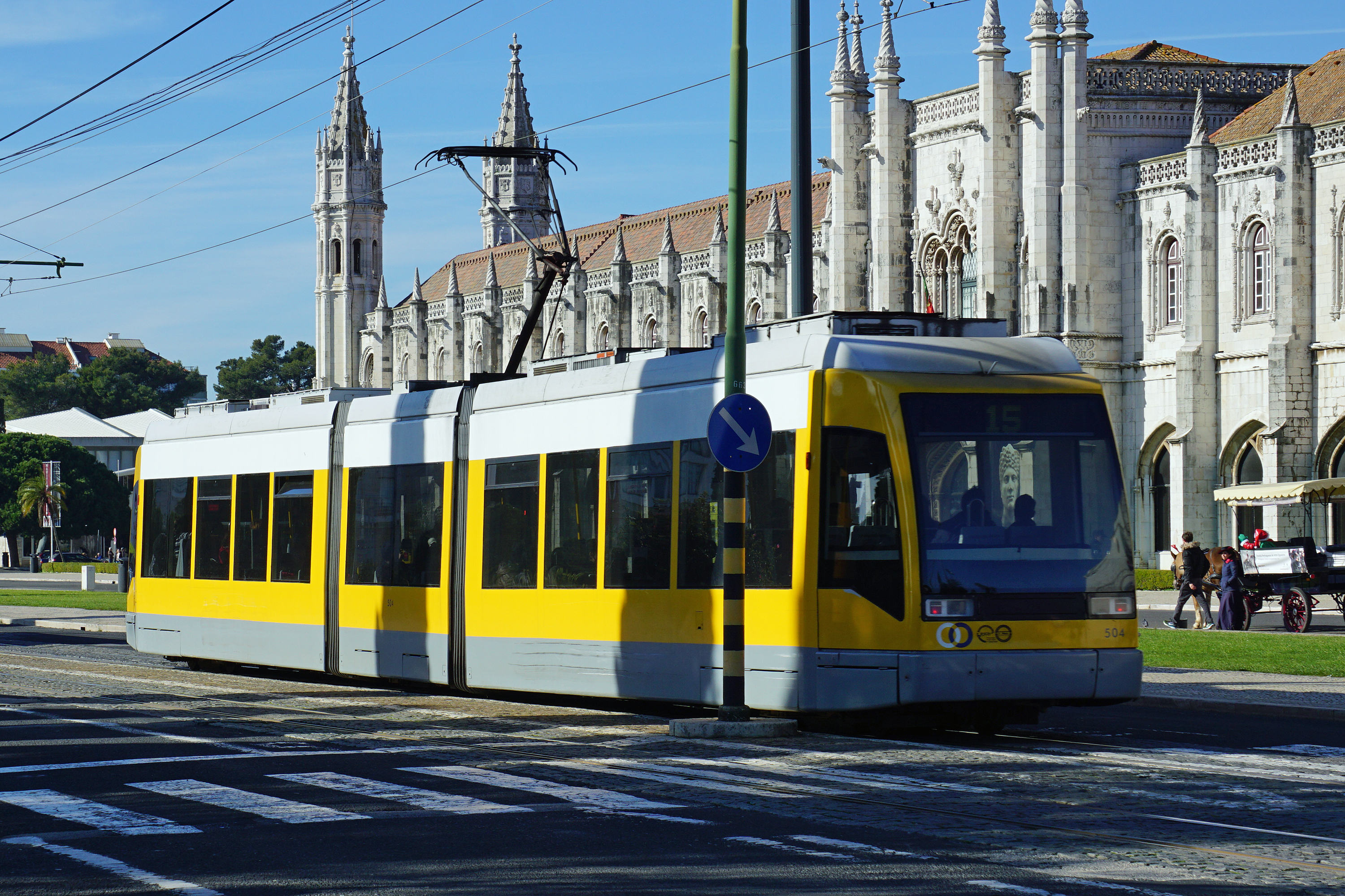 Carrris tram route 15 at Mosteiro dos Jerónimos, Lisbon